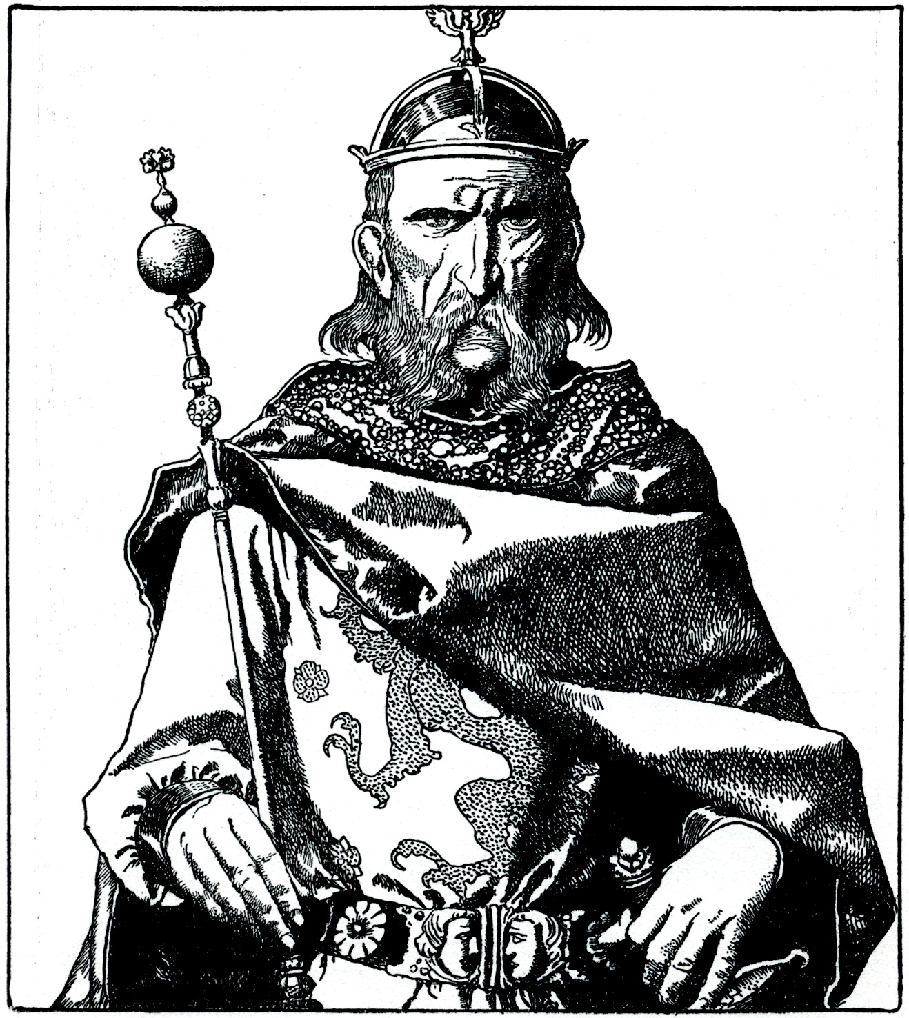 Howard Pyle illustration from the 1903 edition of The Story of King Arthur and His Knights scanned and archived at where it was marked as Public Domain.